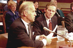 Senator Biden introduces Wilmington resident Mike McCabe (right), a former member of Biden's staff, at a Senate hearing on McCabe's nomination to be a top EPA administrator. February 2000.